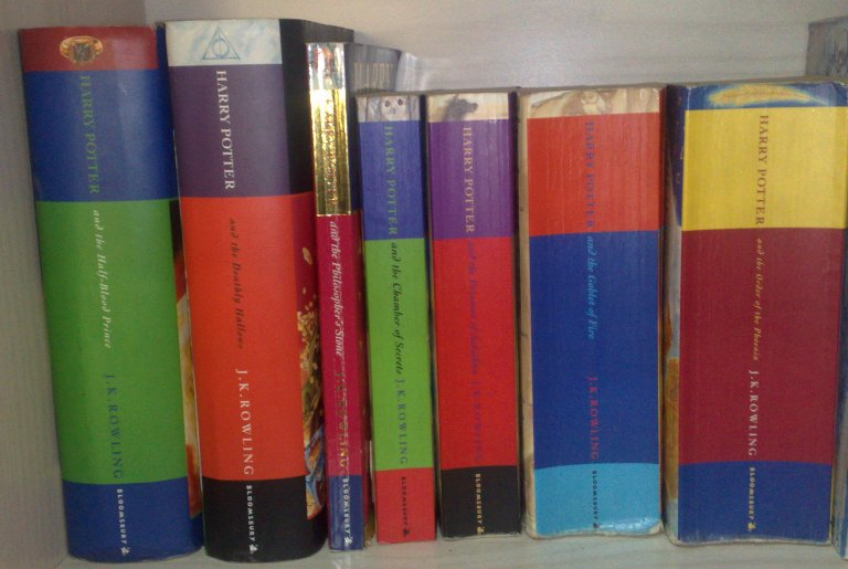 British versions of the Harry Potter series My own collection ^_^